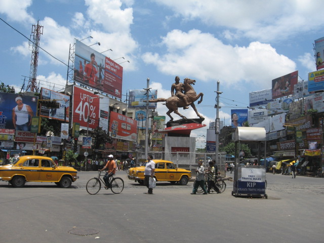 Own photograph Five-point crossing at Shyambazar, Kolkata